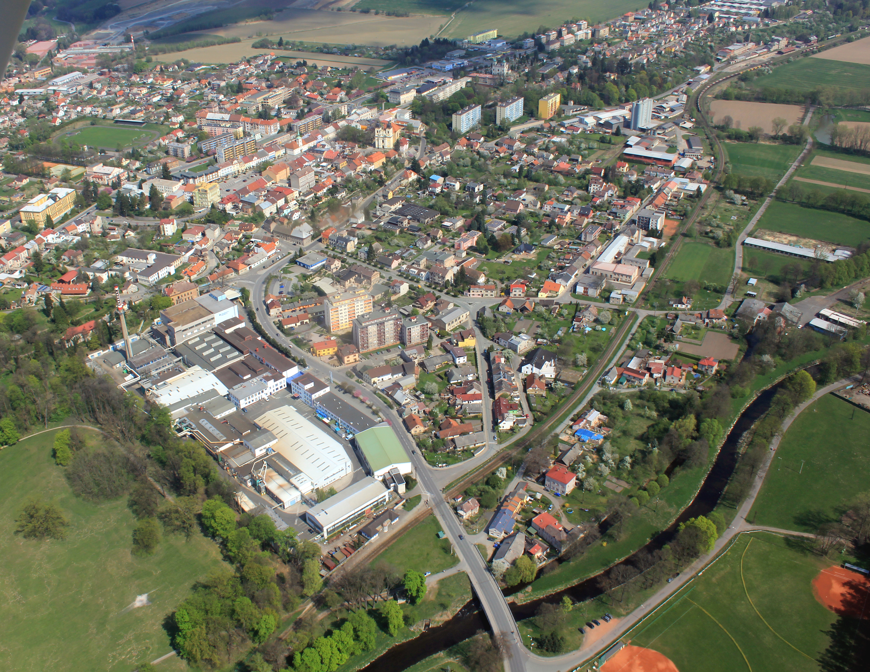 Small town Kostelec nad Orlicí from air, eastern Bohemia, Czech Republic